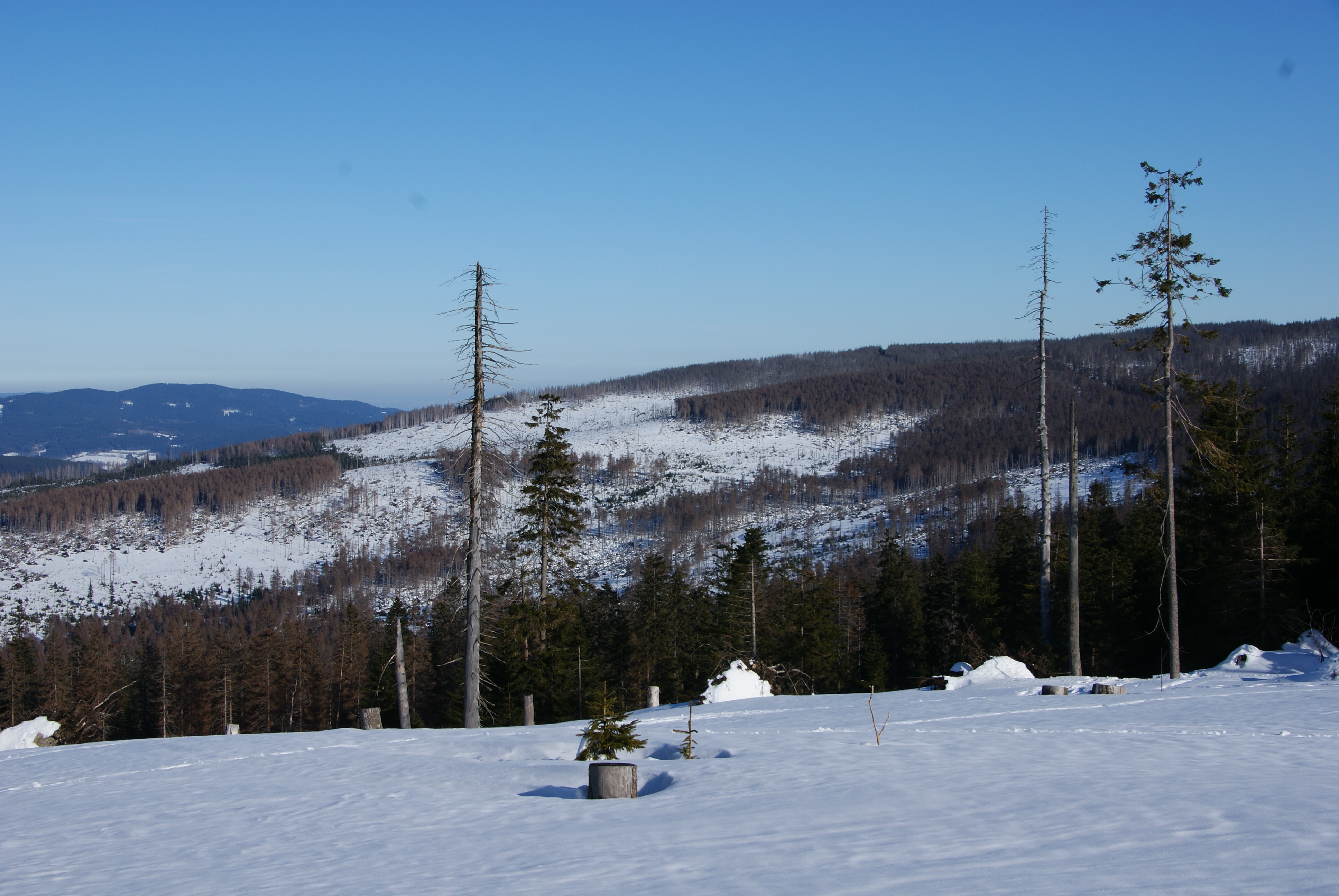 Summit region of the Dreisesselberg in the Bavarian Forest